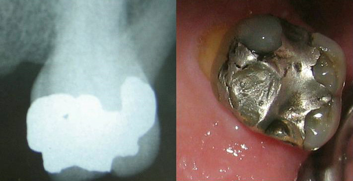 The clinical and radiographic appearance of a maxillary molar currently restored with a complex amalgam.